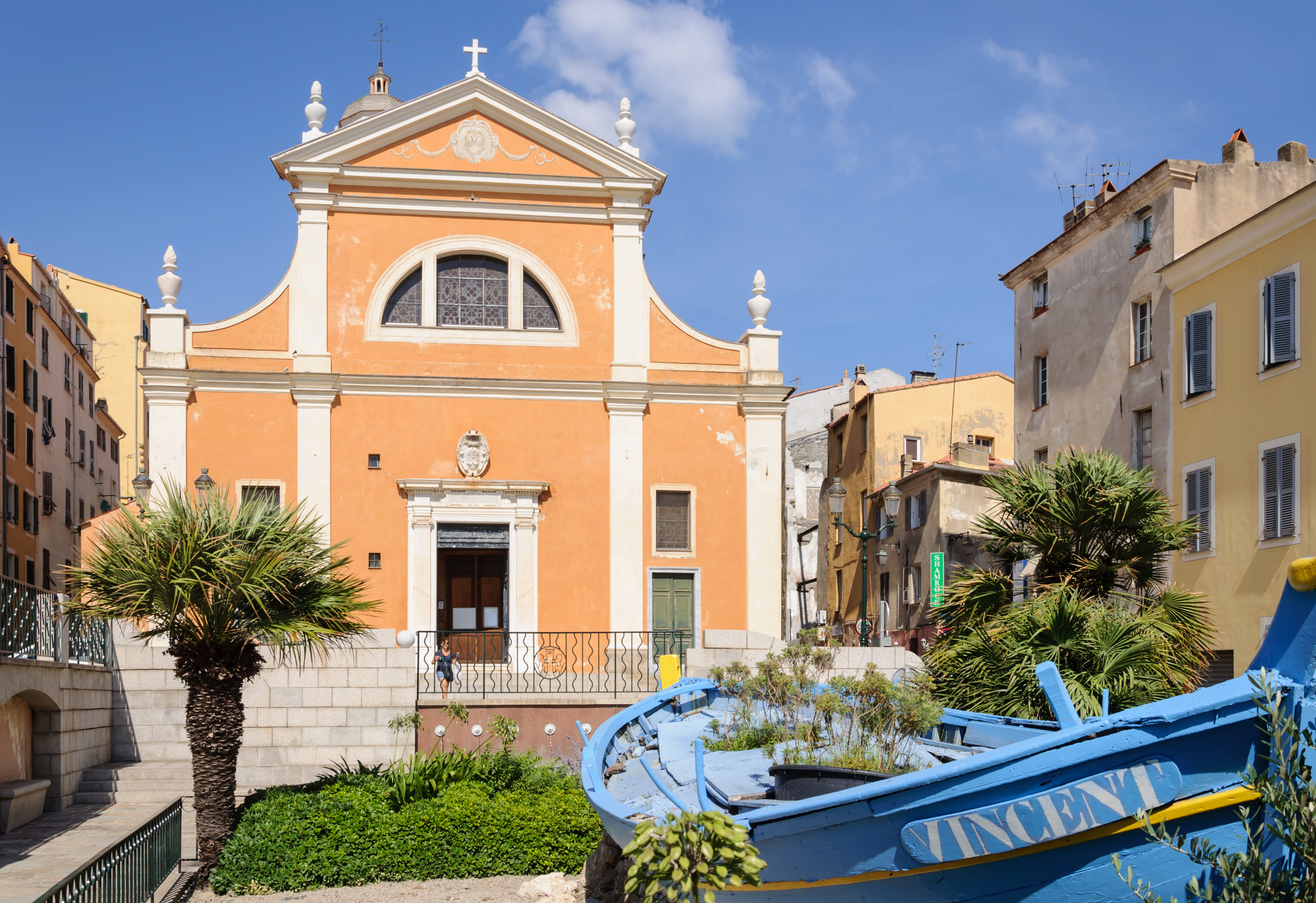 Ajaccio Cathedral, officially the Cathedral of Our Lady of the Assumption of Ajaccio, Corsica, France .